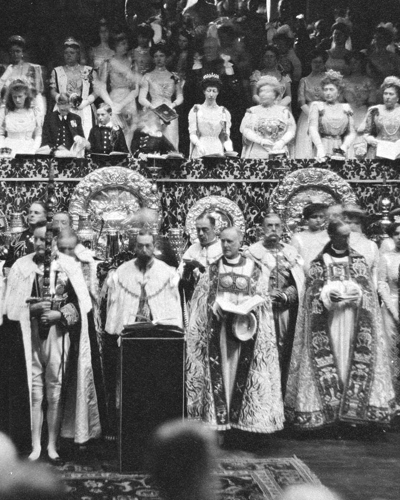 Cropped version.